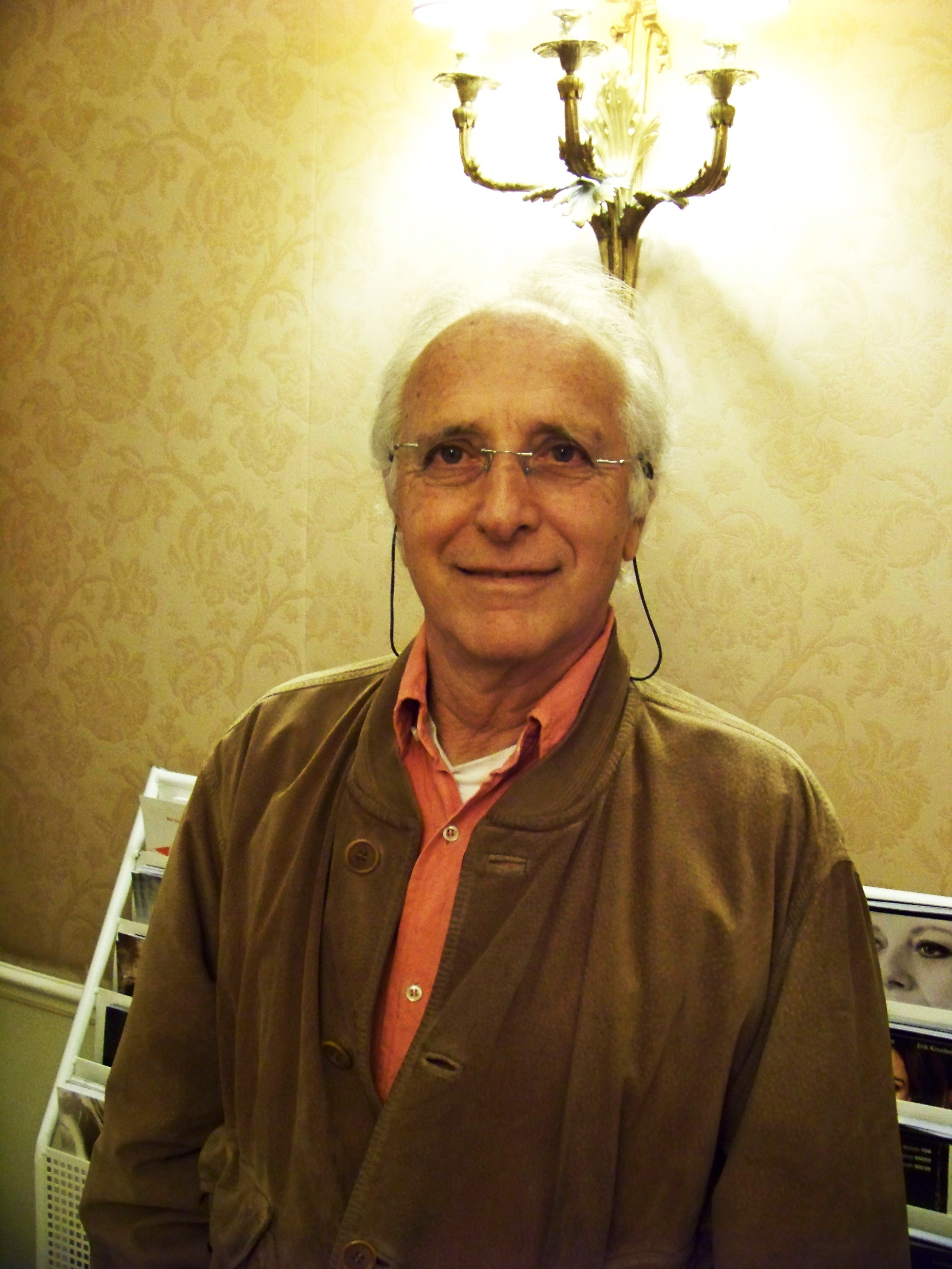 Ruggero Deodato at the Cannes film festival